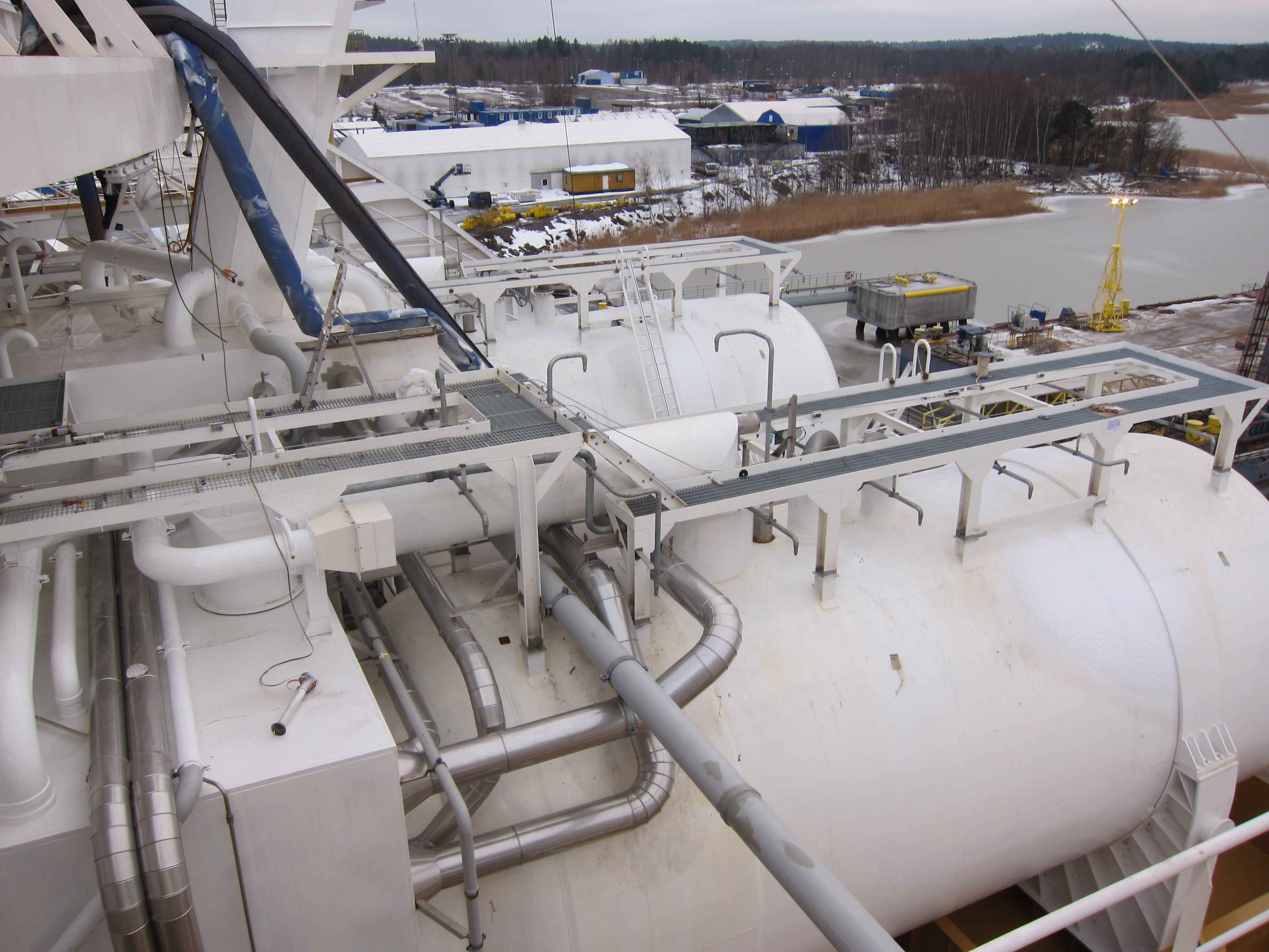 LNG tanks of cruiseferry MS Viking Grace owned and operated by Finnish shipping company Viking Line Abp. The LNG tanks are located outdoors on the rear deck. Viking Grace is the world's first large passenger ship that uses liquefied natural gas (LNG) as its fuel. At the time the picture was taken the ship was under construction at STX Finland Oy, Turku, Finland.